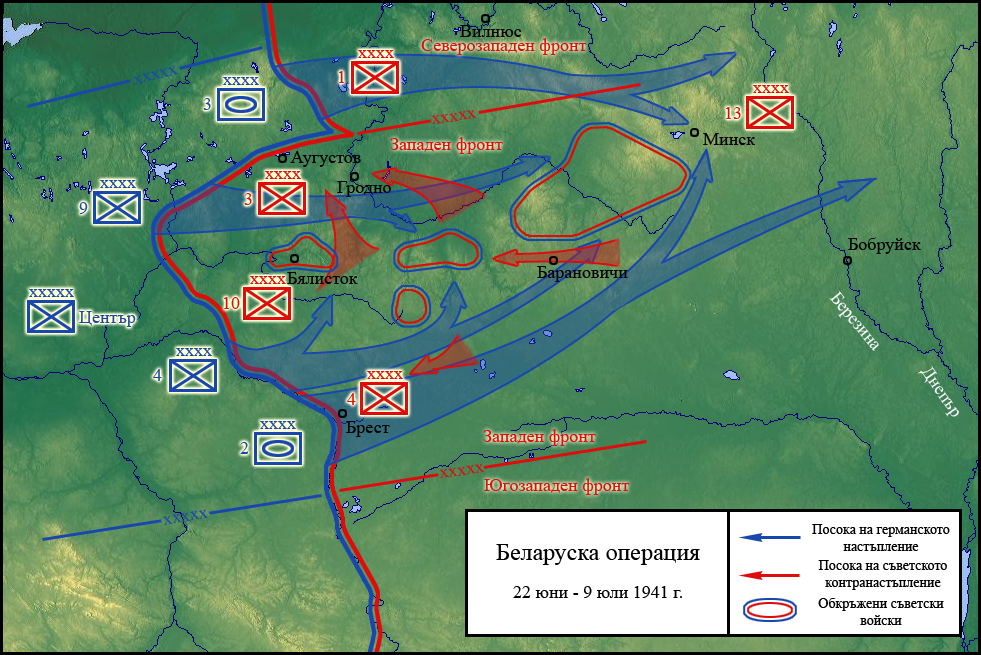 Battle of Białystok–Minsk (22 June - 9 July 1941), part of operation Barbarosa.